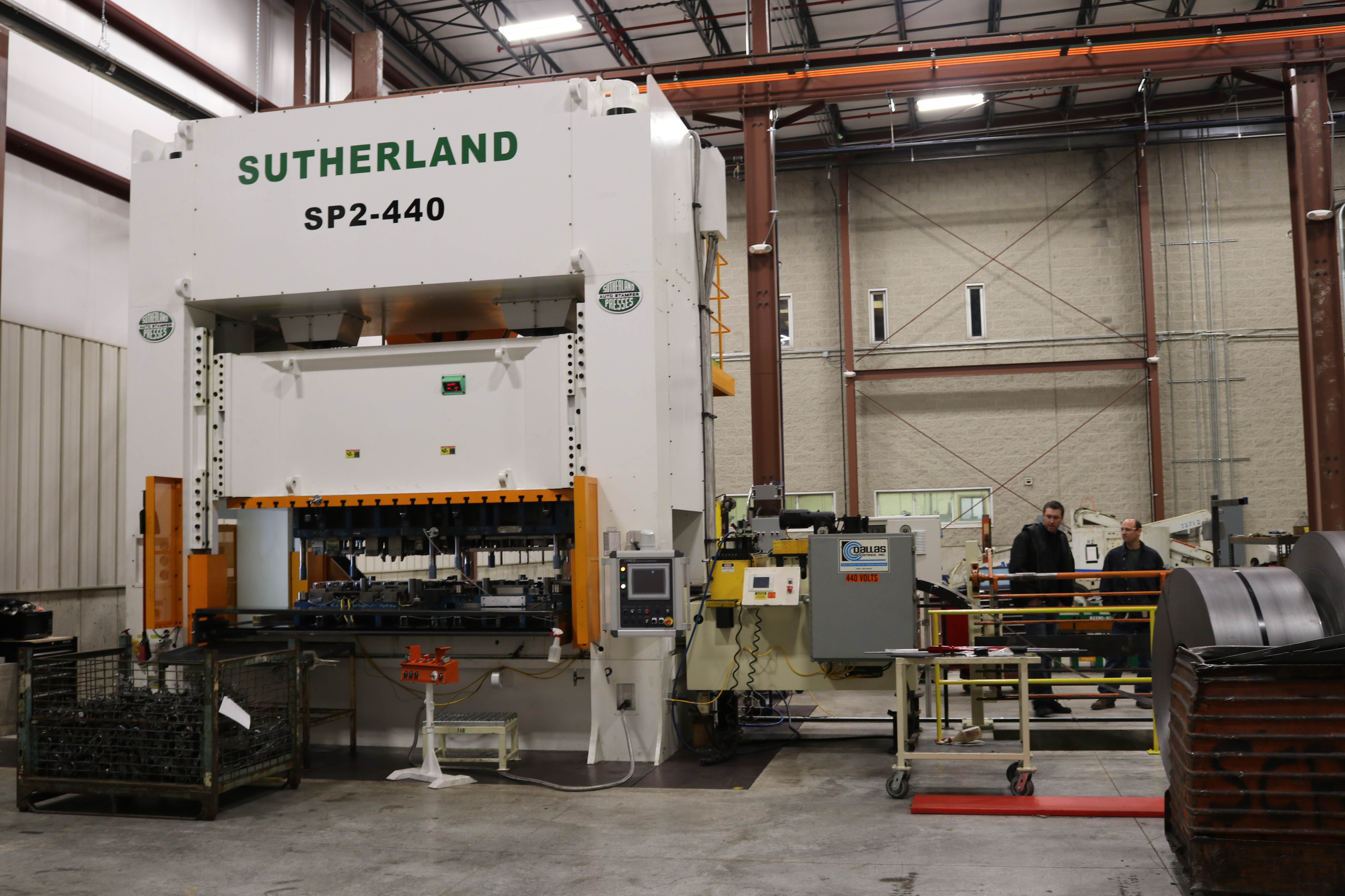 Two Point Straight Side Press, 440 ton capacity with 120" x 60" Die Area